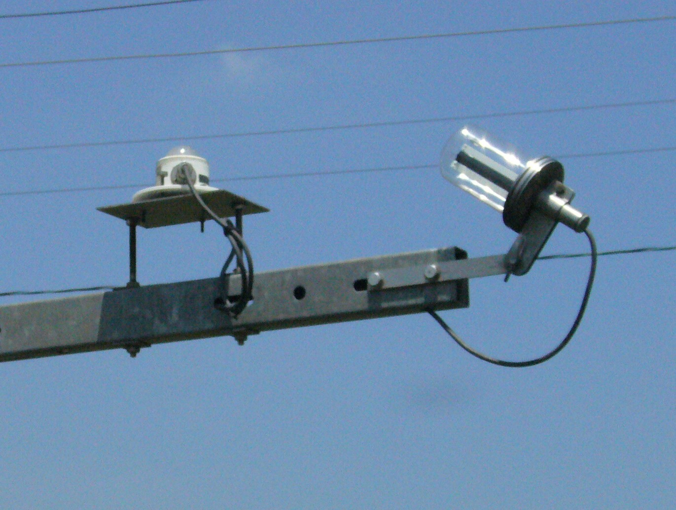 sunshine-gauges,amedas,japan. On the left a pyranometers and on the right a Pyrheliometers